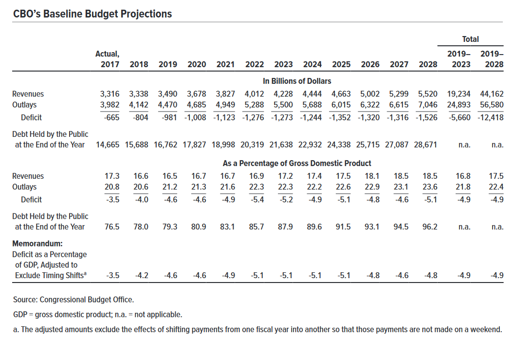 CBO current law baseline as of April 2018, showing forecast of deficit and debt by year